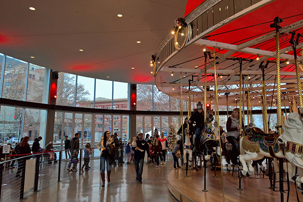 Spokane's Historic Looff Carrousel, located in Riverfront Park, pictured in 2018